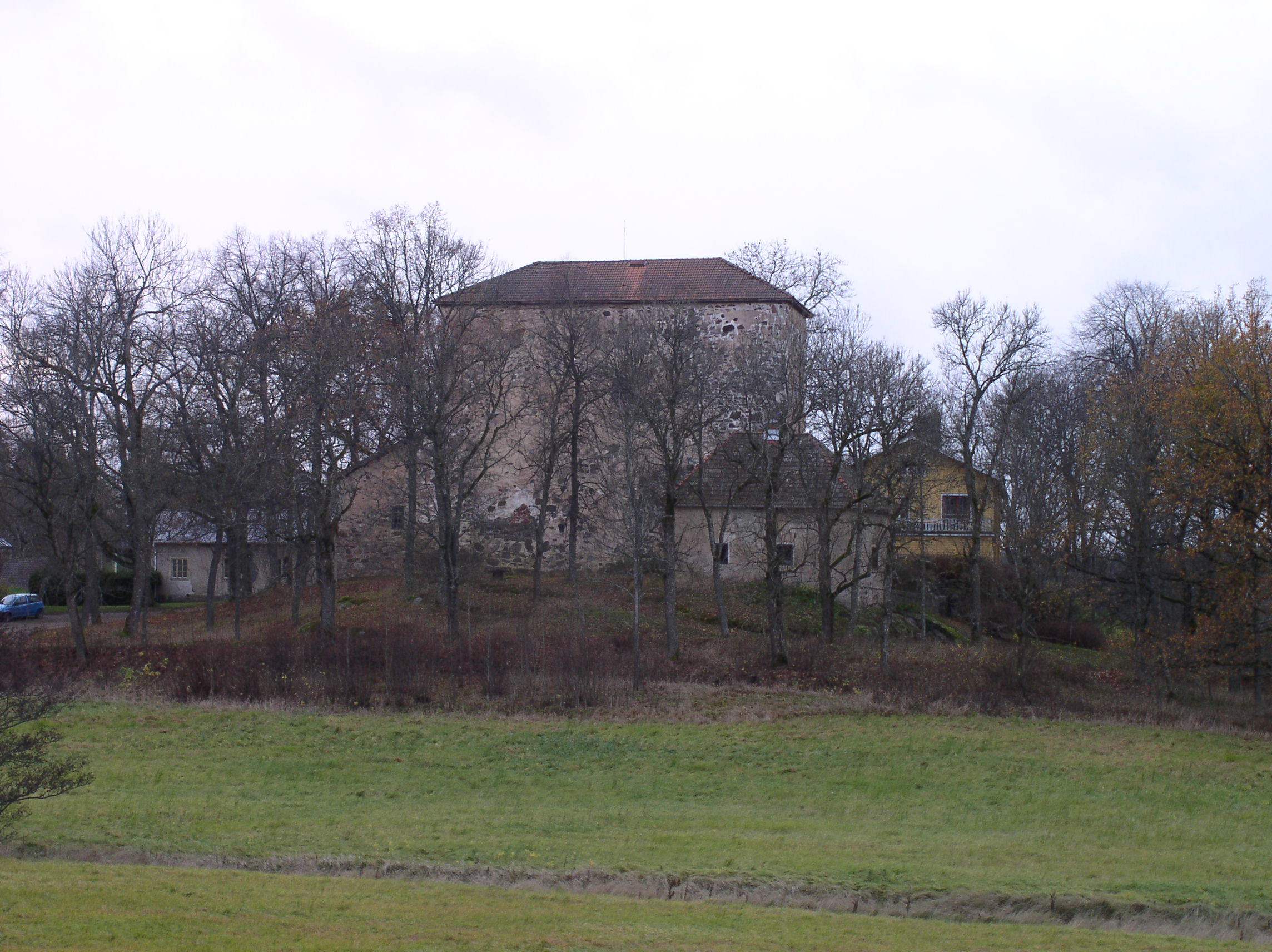 Kuitia manor in Parainen, Finland. In the foreground the Kuitia castle (build of stone c. 1480).